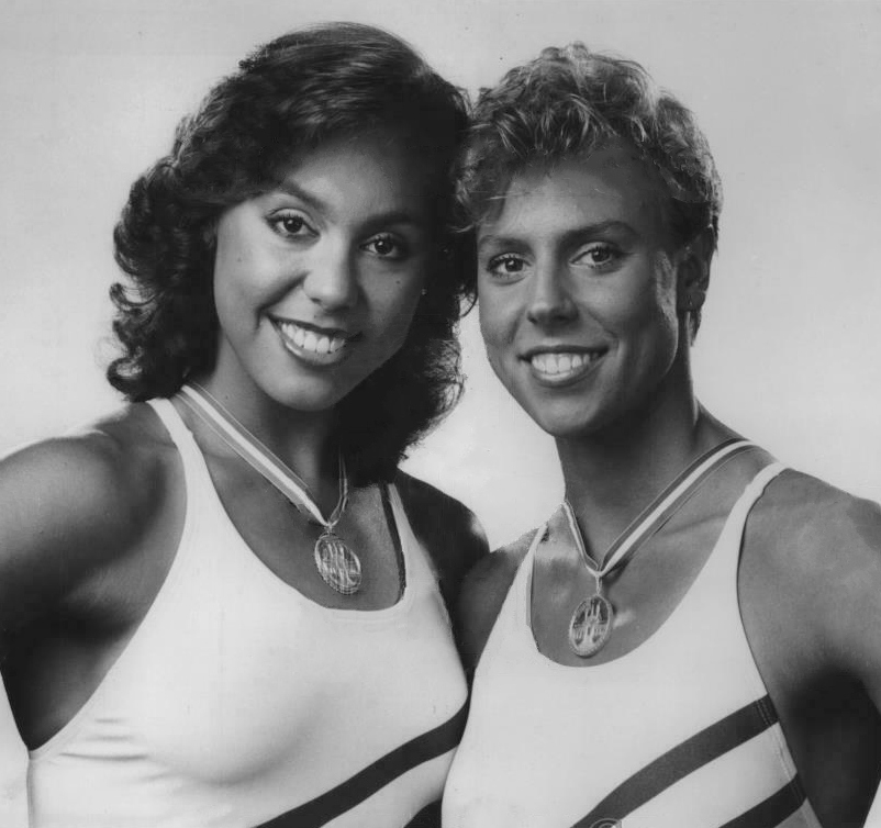 1984 Press Photo Synchronized swimmers Tracie Ruiz & Candy Costie; in Olympics